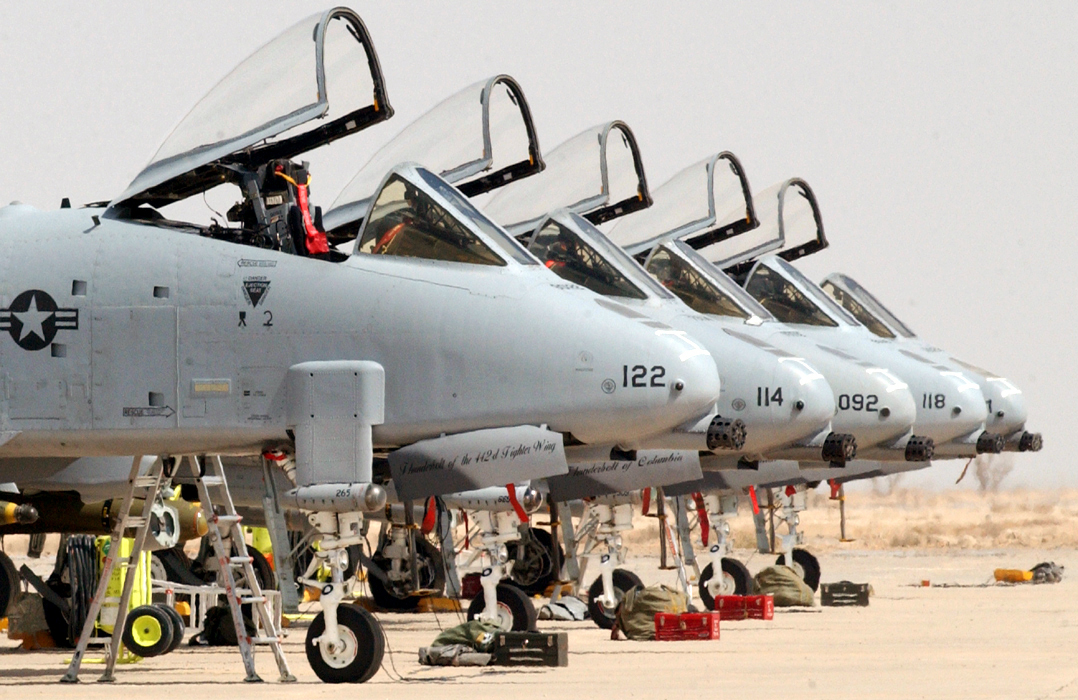 A-10 Thunderbolt II at Tallil Air Base from en:442nd Fighter Wing from Whiteman Air Force Base, Mo.